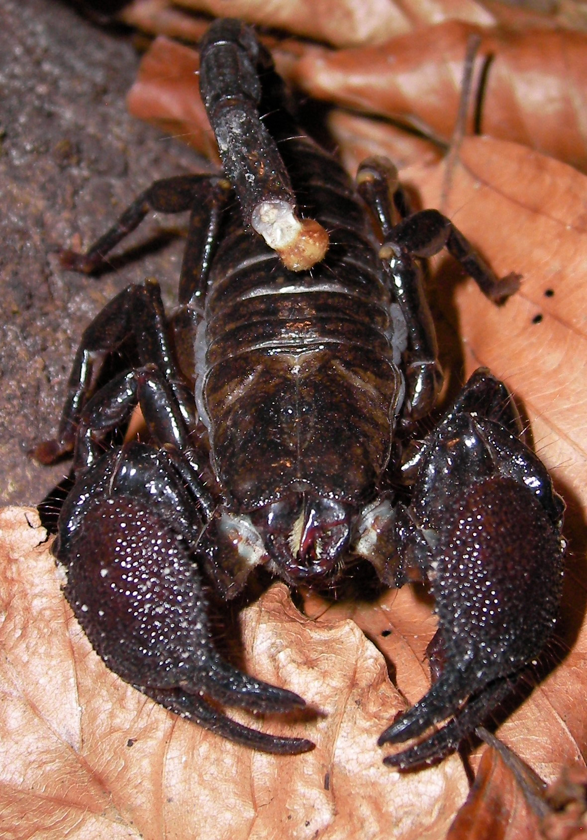 Scorpion Pandinus imperator